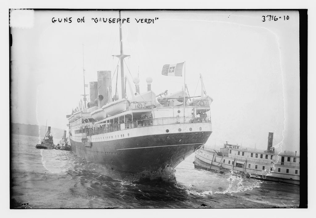 Stern view of passenger ship "Giuseppe Verdi" showing defensive guns. Built by Societa Esercizio Bacini, Riva Trigoso, Italy, 1914. 9,757 gross tons; 503 (bp) feet long; 59 feet wide. Steam quadruple expansion engines, twin screw. Service speed 16 knots. 2,185 passengers (100 first class, 260 second class, 1,825 third class). Two funnels and two masts. Built for Transatlantica Italiana Line, in 1914 and named Giuseppe Verdi. Italy-New York service. Sold to Japanese owners, Japanese flag, in 1928 and renamed Yamato Maru. Torpedoed and sunk by a US submarine in the Philippines in 1943.